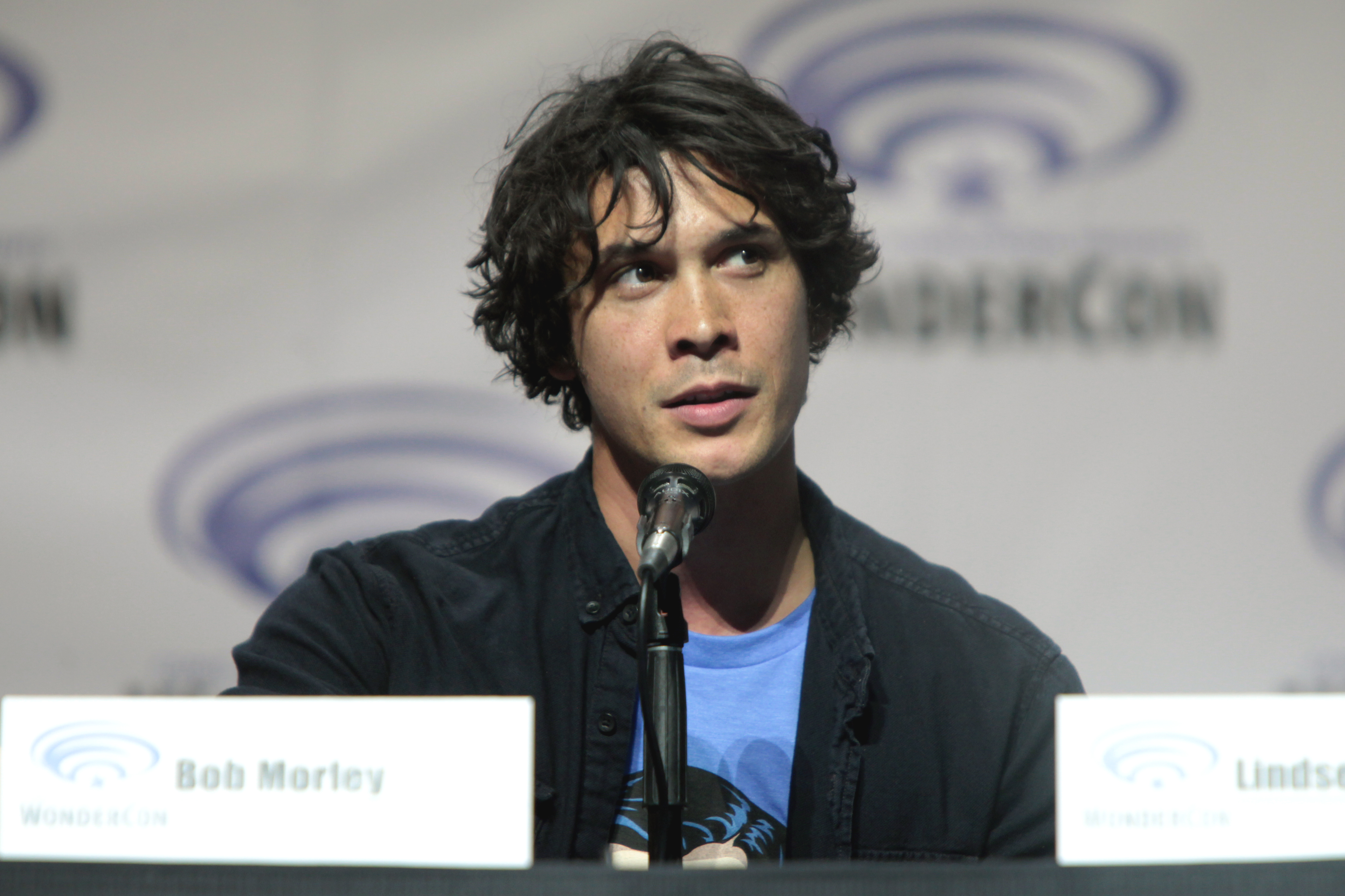 Bob Morley speaking at the 2016 WonderCon, for "The 100", at the Los Angeles Convention Center in Los Angeles, California.